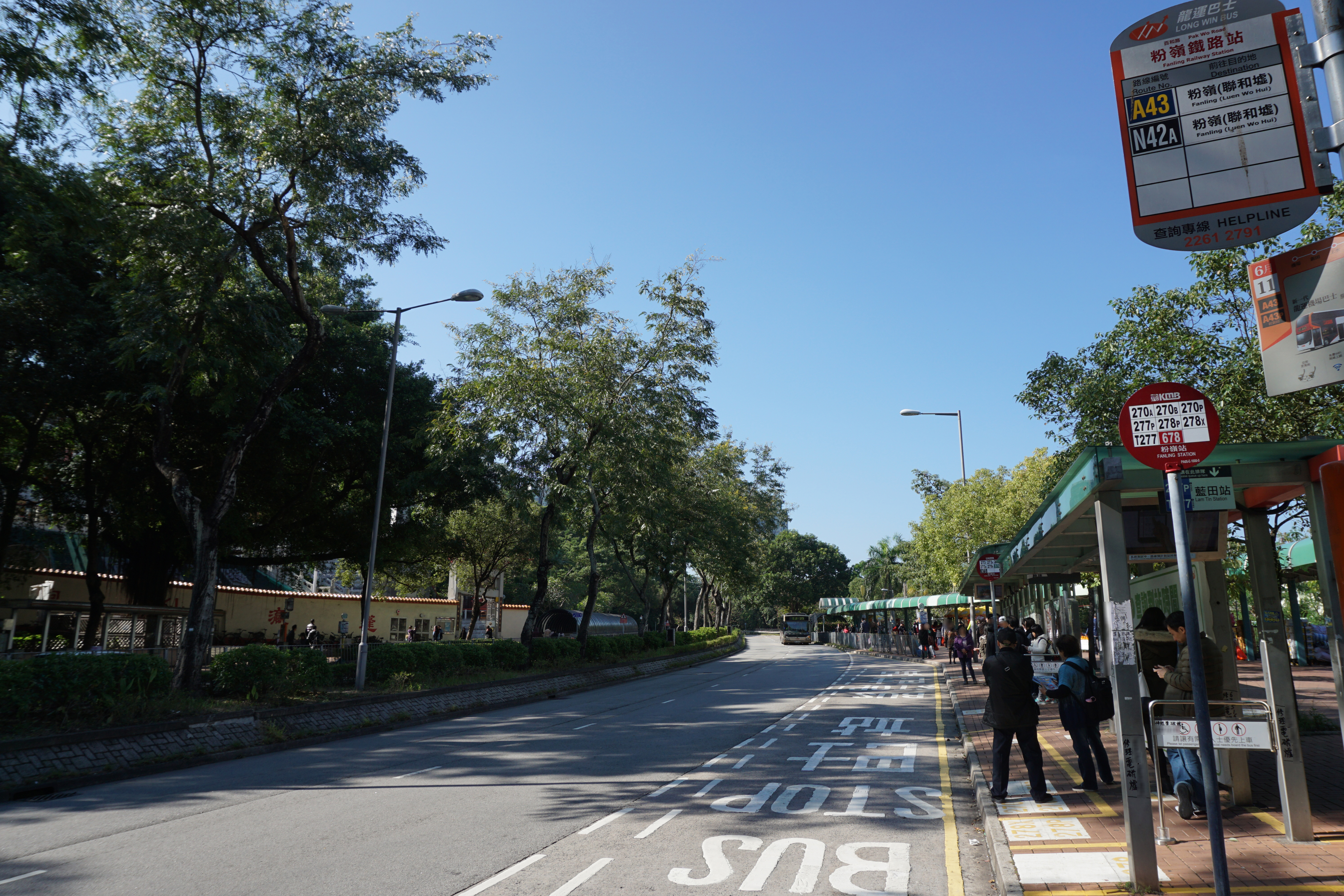 Pak Wo Road in Fanling, Hong Kong.